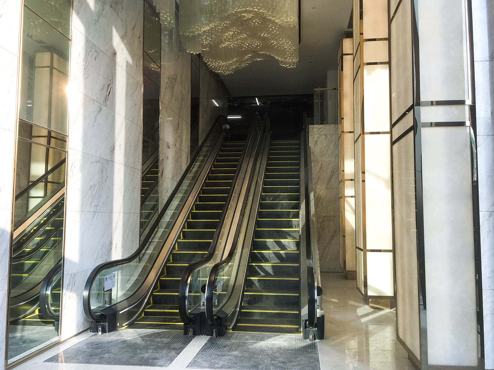 The Parkside Place